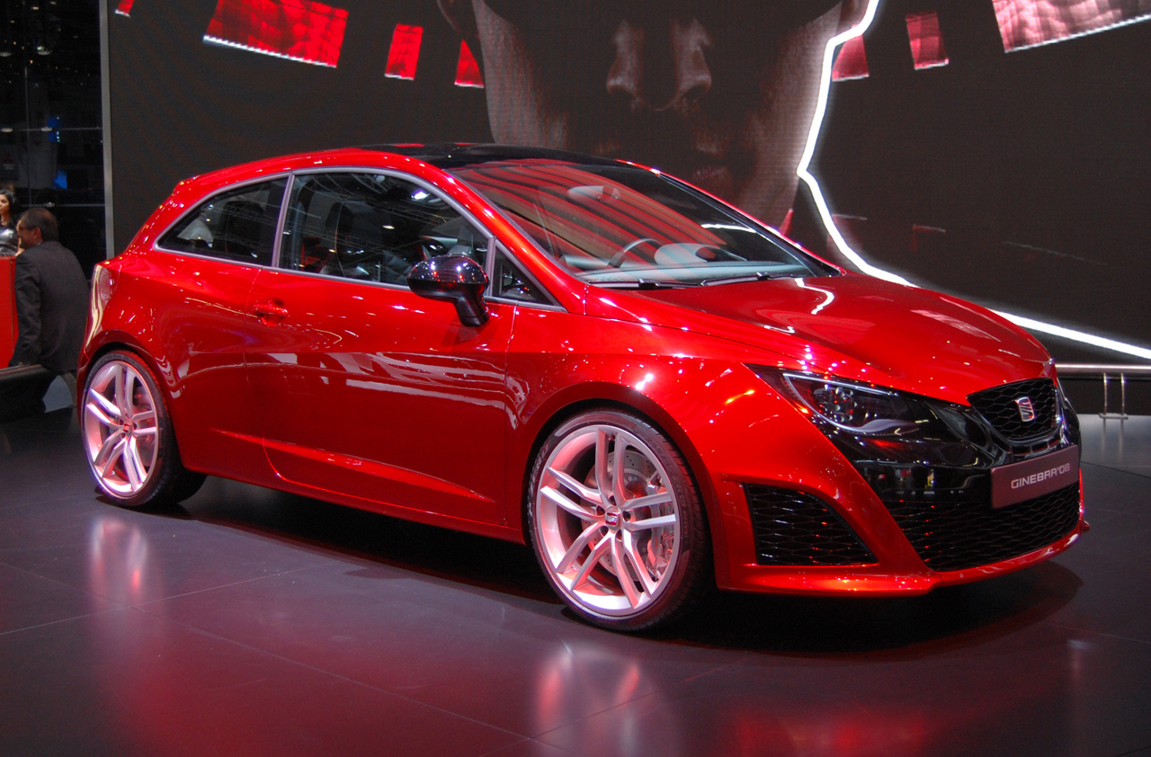 Seat Bocanegra at the 2008 Geneva Motorshow